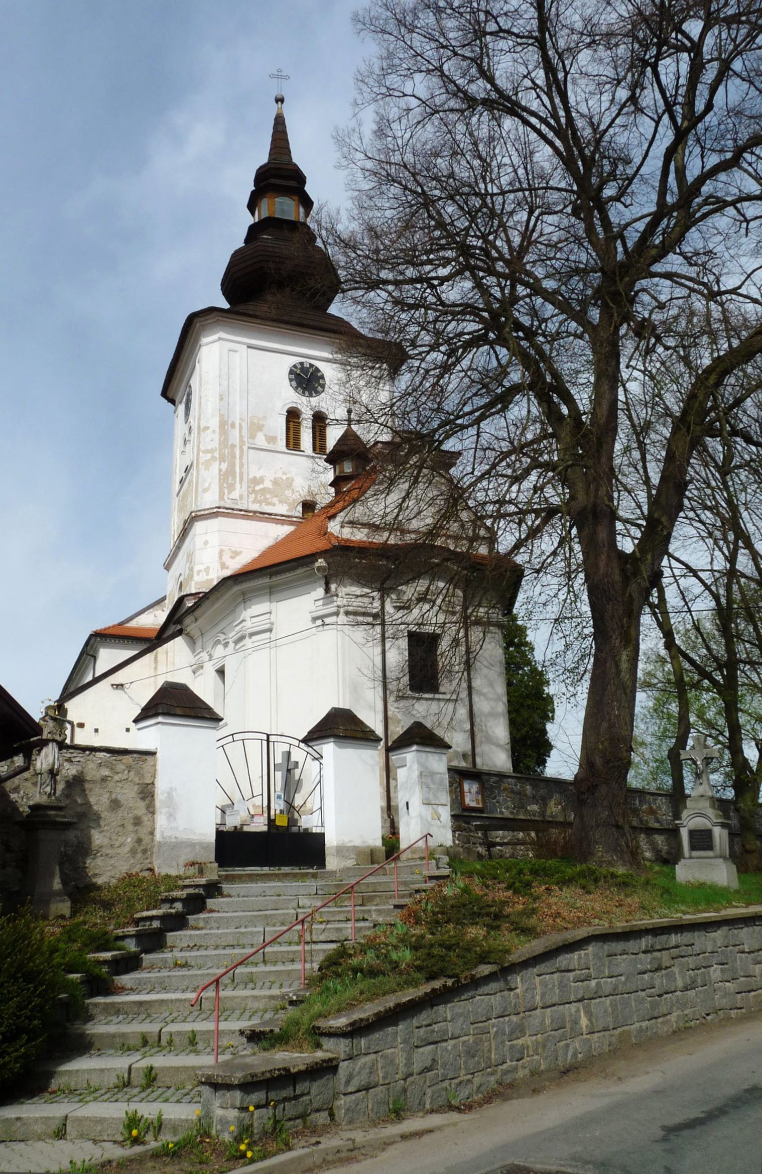 St. James the Greater Church in the market town of Kolinec, Klatovy District, Czech Republic.